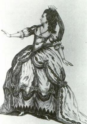 Mrs Gardner actress and playwright as Macbeth. She is not known after 1795. artist unknown